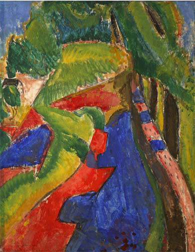 Alfred H. Maurer (1868–1932): Fauve Landscape with Red and Blue, c. 1908, Oil on board